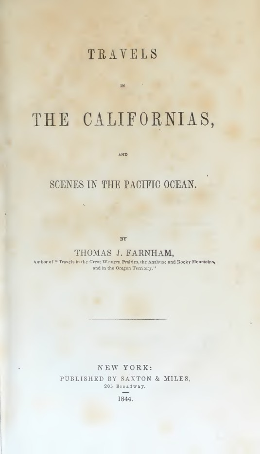 FARNHAM, Thomas J[efferson]. Pictorial Edition!! Life, Adventures, and Travels in California...to Which Are Added the Conquest of California, Travels in Oregon. New York: Sheldon, Blakeman & Co., 1857